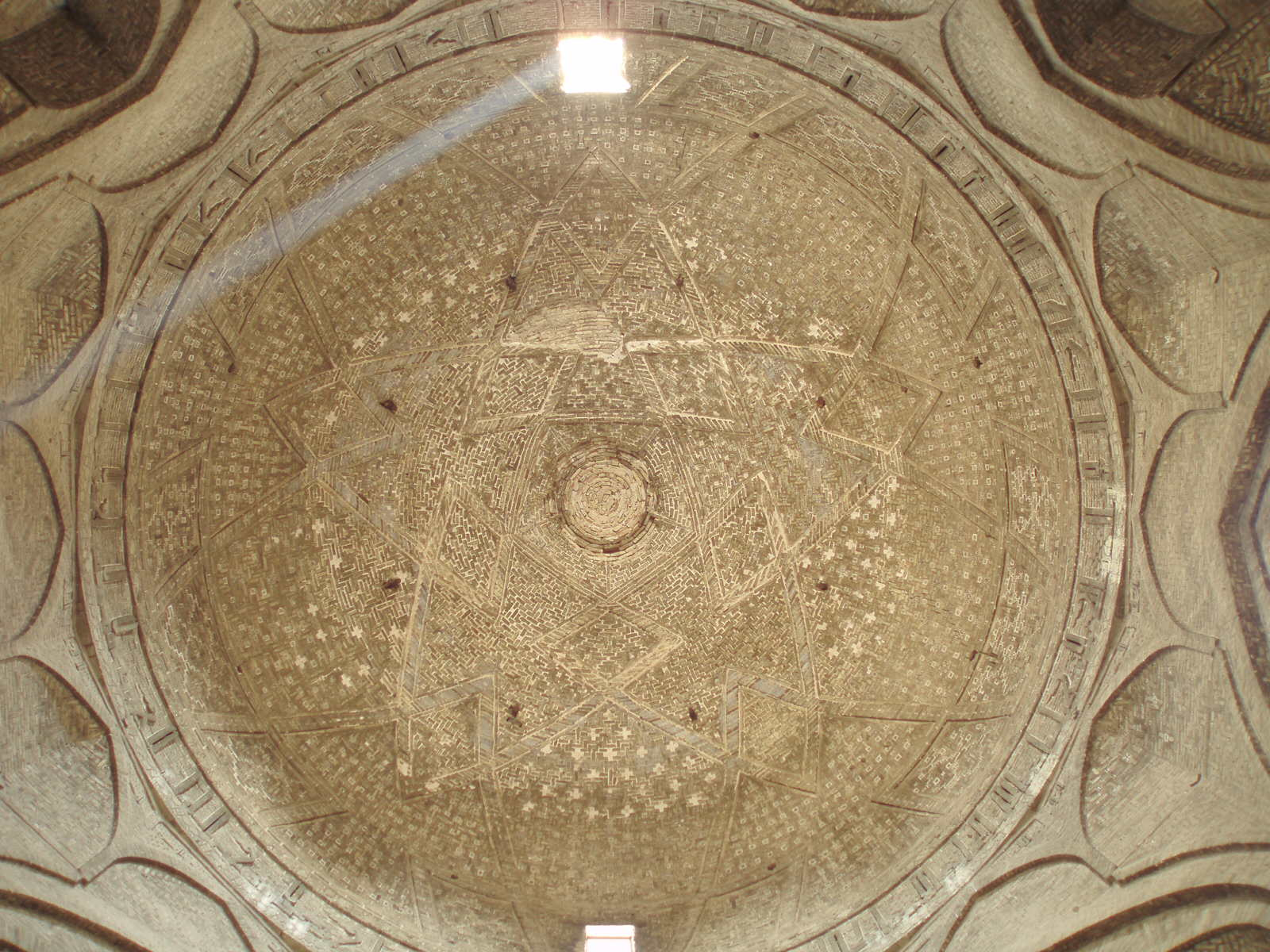 Iran 2007 219 Jameh Mosque of Isfahan